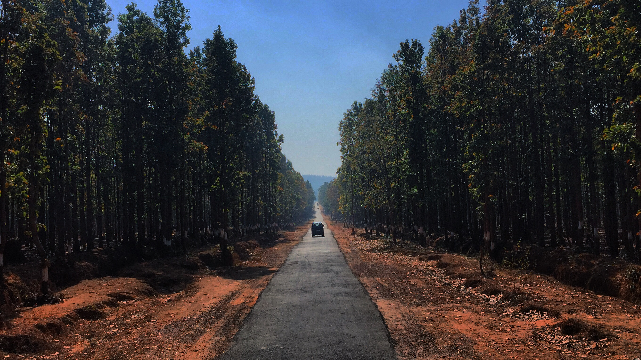 Forest on either sides of the road falls under protected forests of Rukka near Swarnrekha river. The avenue leads to Getalsud Dam, located on the north-eastern edge of Chota Nagpur Plateau. It is situated in Rukka Block, because of which it is locally known as Rukka Dam. The Getalsud Dam is around 35 km from Ranchi and around 30 km from Ramgarh.